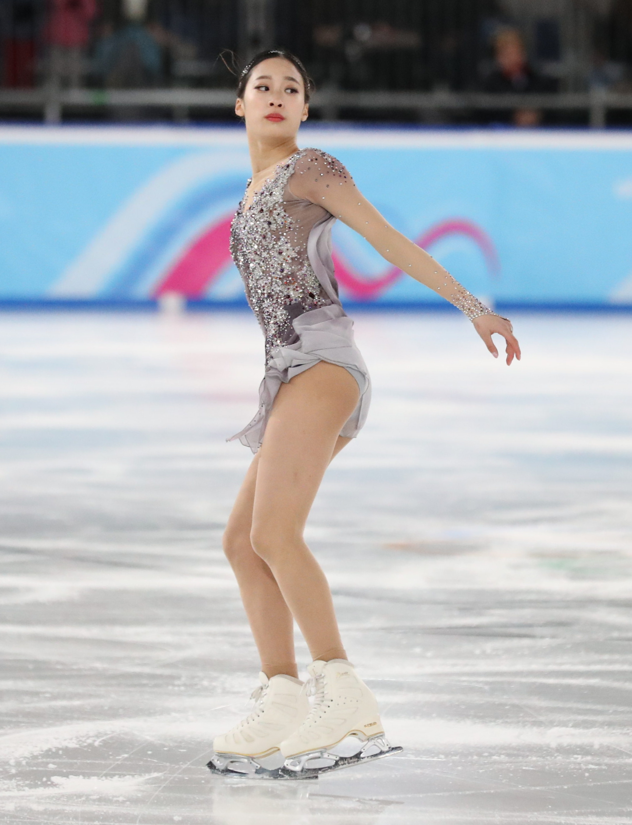 Women Single Figure Skating Short Program at the 2020 Winter Youth Olympics in Lausanne